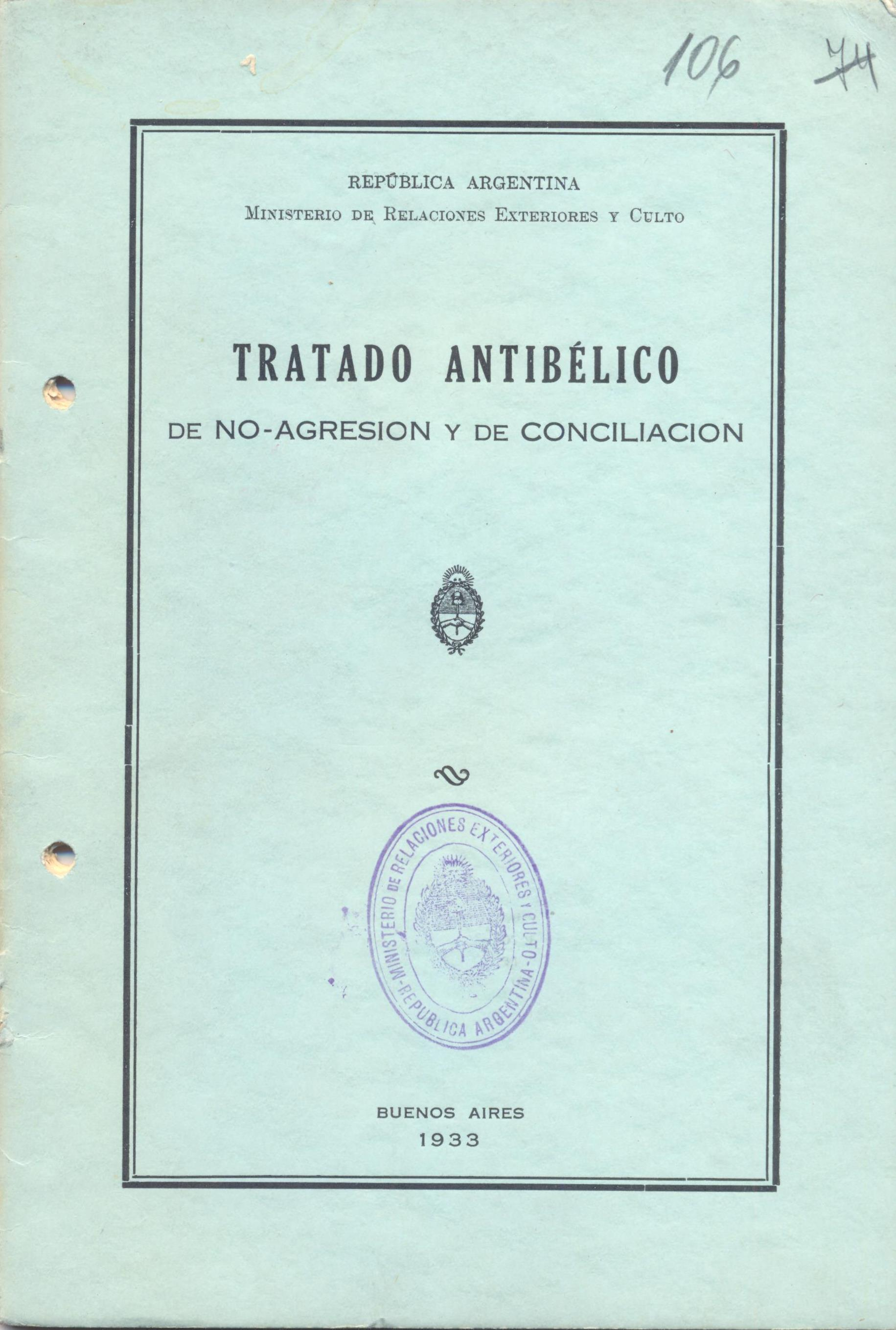 Treaty of Nonaggression and Conciliation